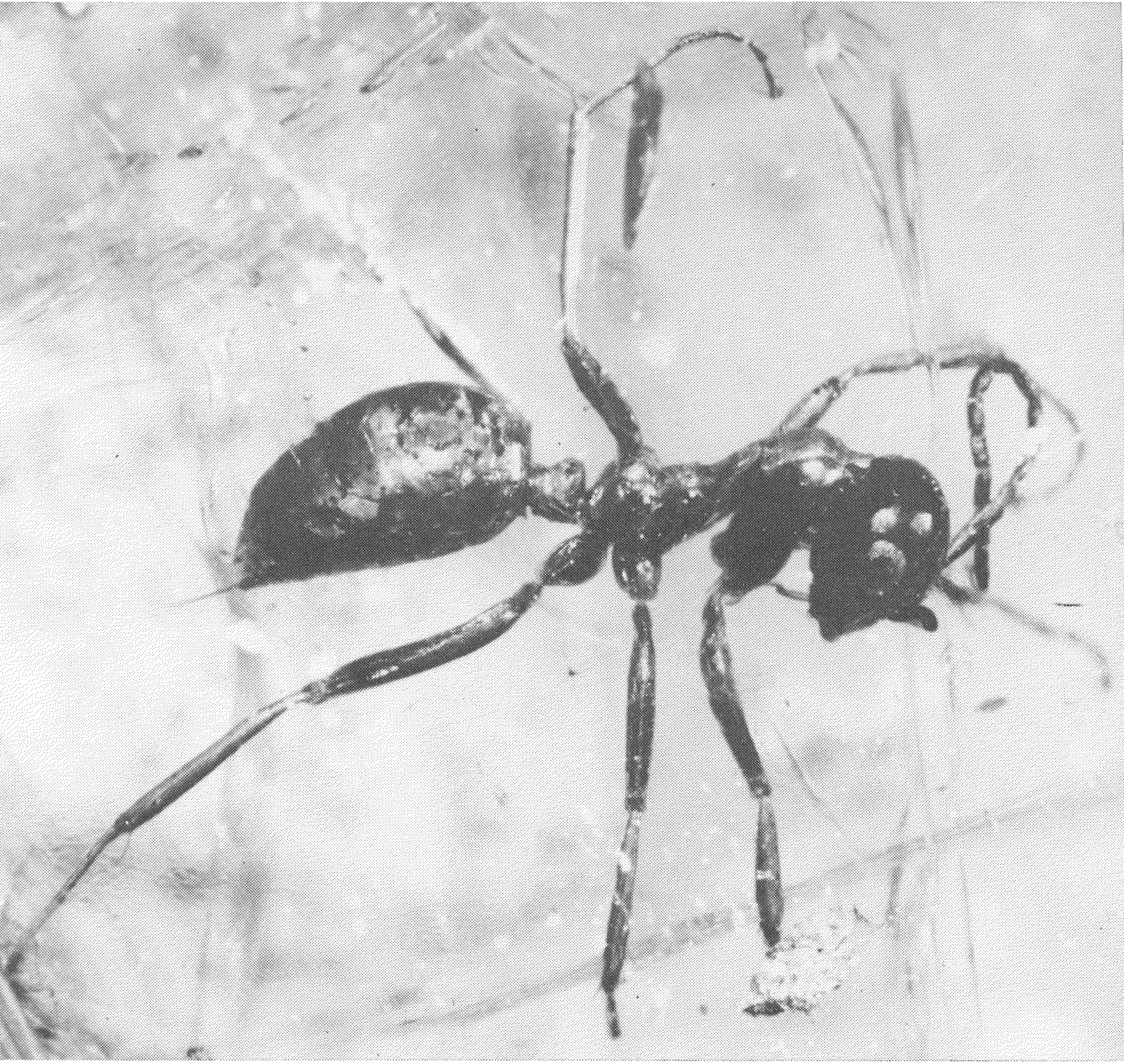 Sphecomyrma freyi, worker no. 1, holotype.